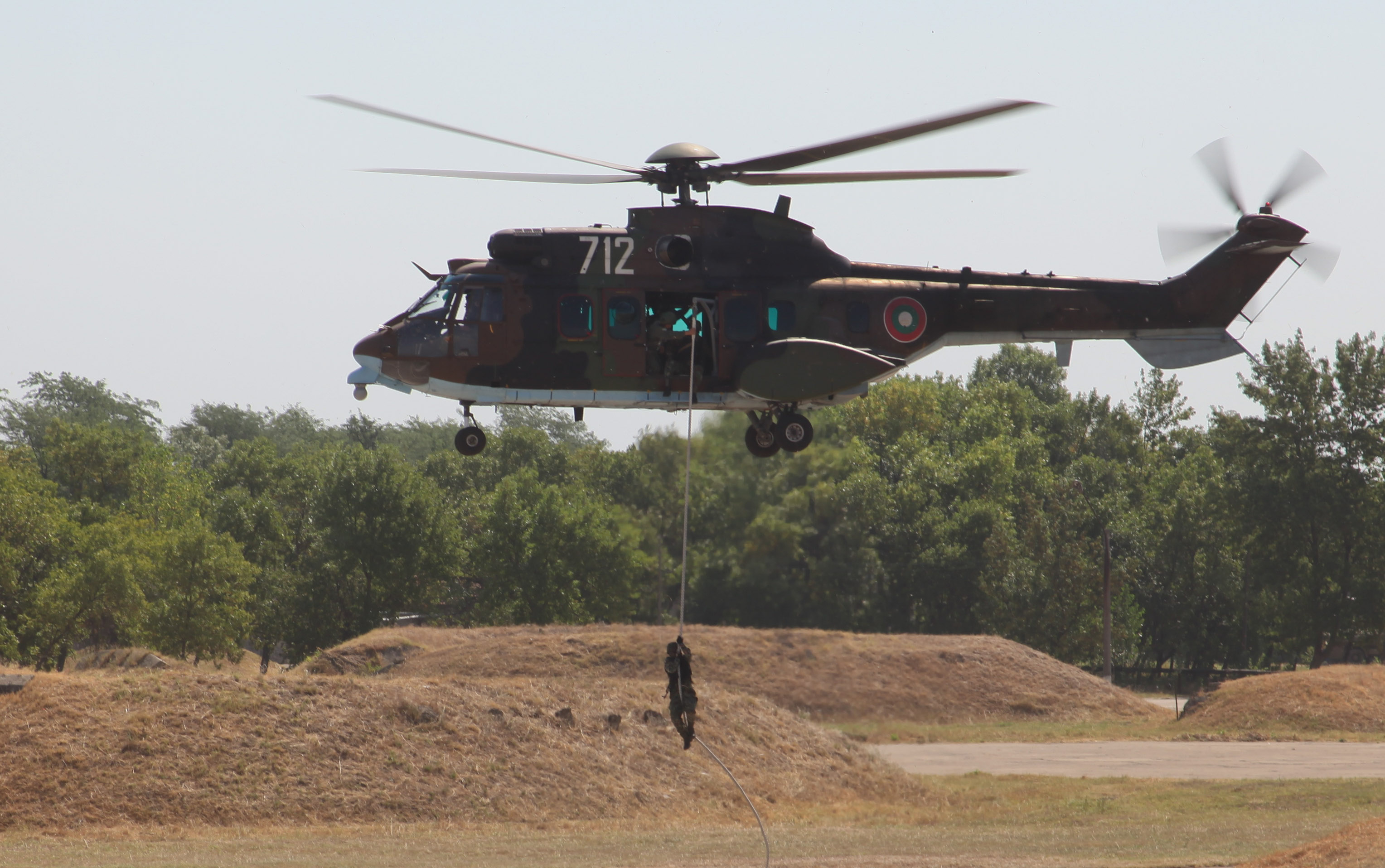 A Bulgarian soldier fast ropes from an AS532 Cougar helicopter during combined training with Marines of Black Sea Rotational Force 12 in Novo Selo, Bulgaria July 30. The combined display of training was part of a distinguished vistors day held to showcase capabilities of the combined forces. Black Sea Rotational Force 12 is a Special-Purpose Marine Air-Ground Task Force with crisis response capabilities deployed to the region to enhance interoperability and promote regional stability.